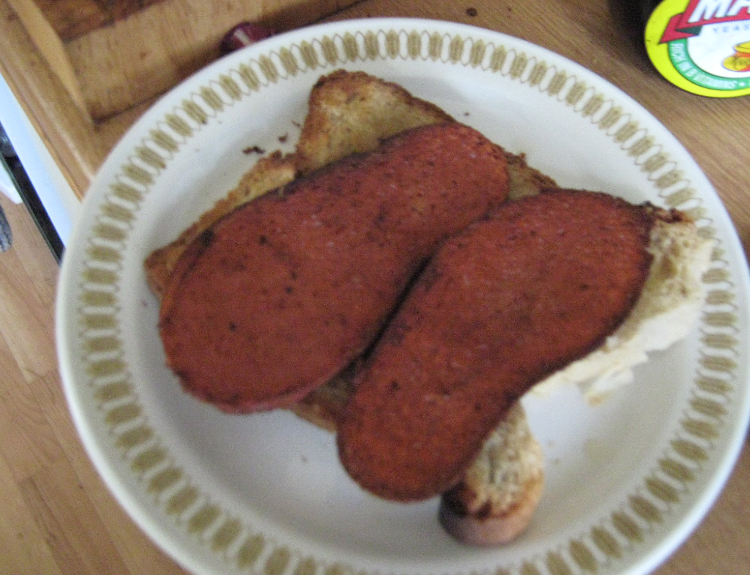 Two slices of mock meat or vegetarian bacon.